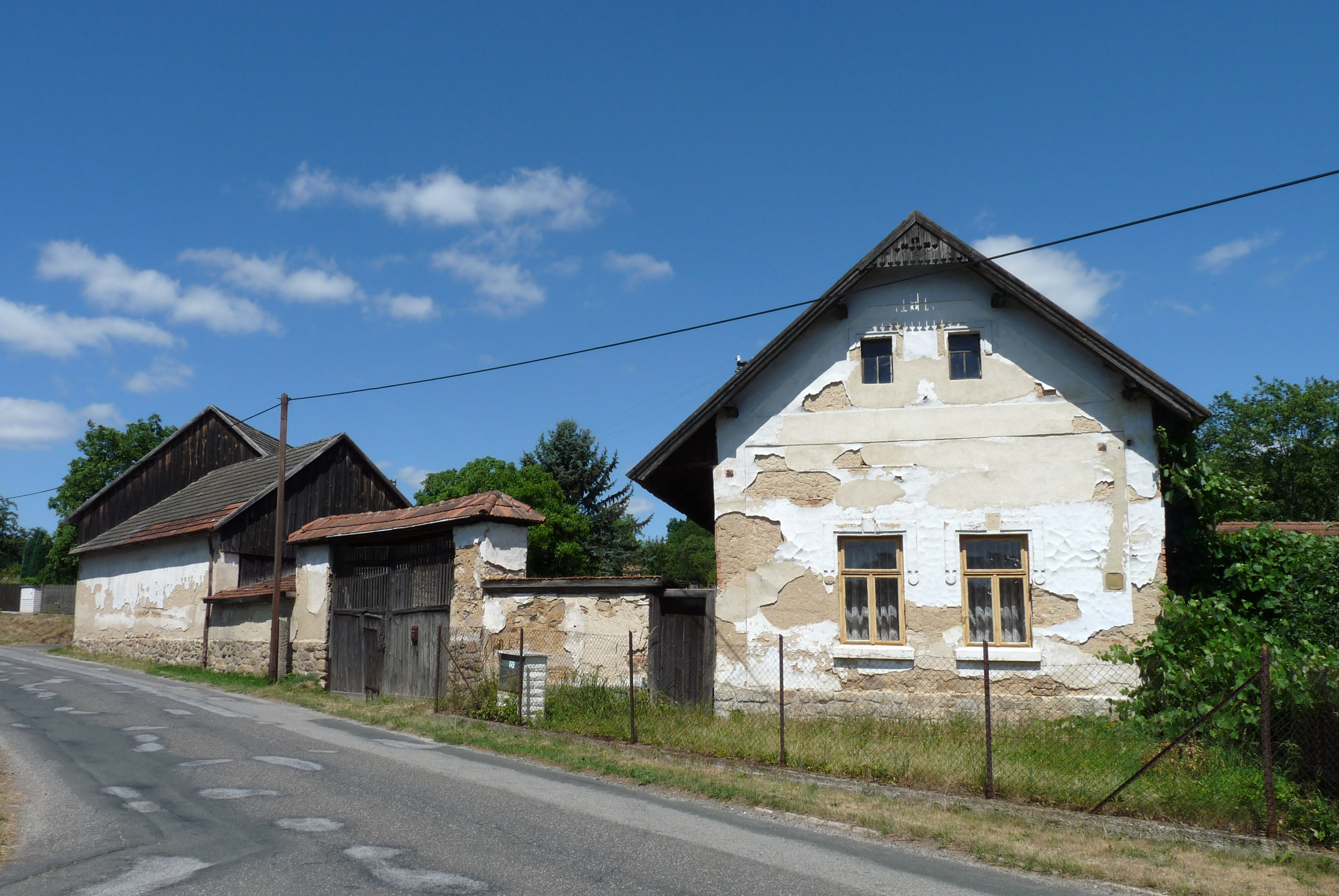 House No 18 in the village of Pavlov, Havlíčkův Brod District, Vysočina Region, Czech Republic.